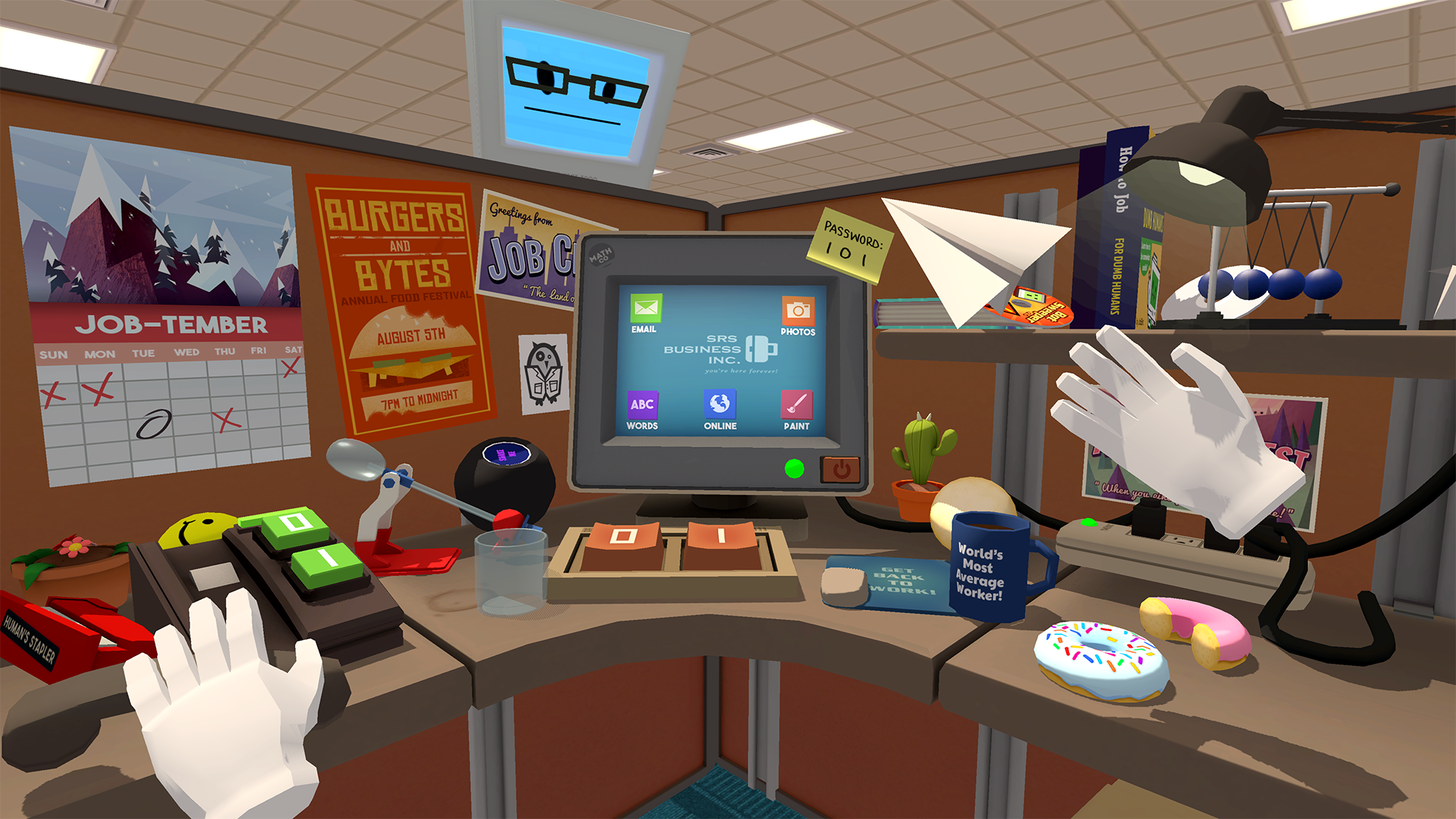 Screeenshot from the 2016 video game Job Simulator